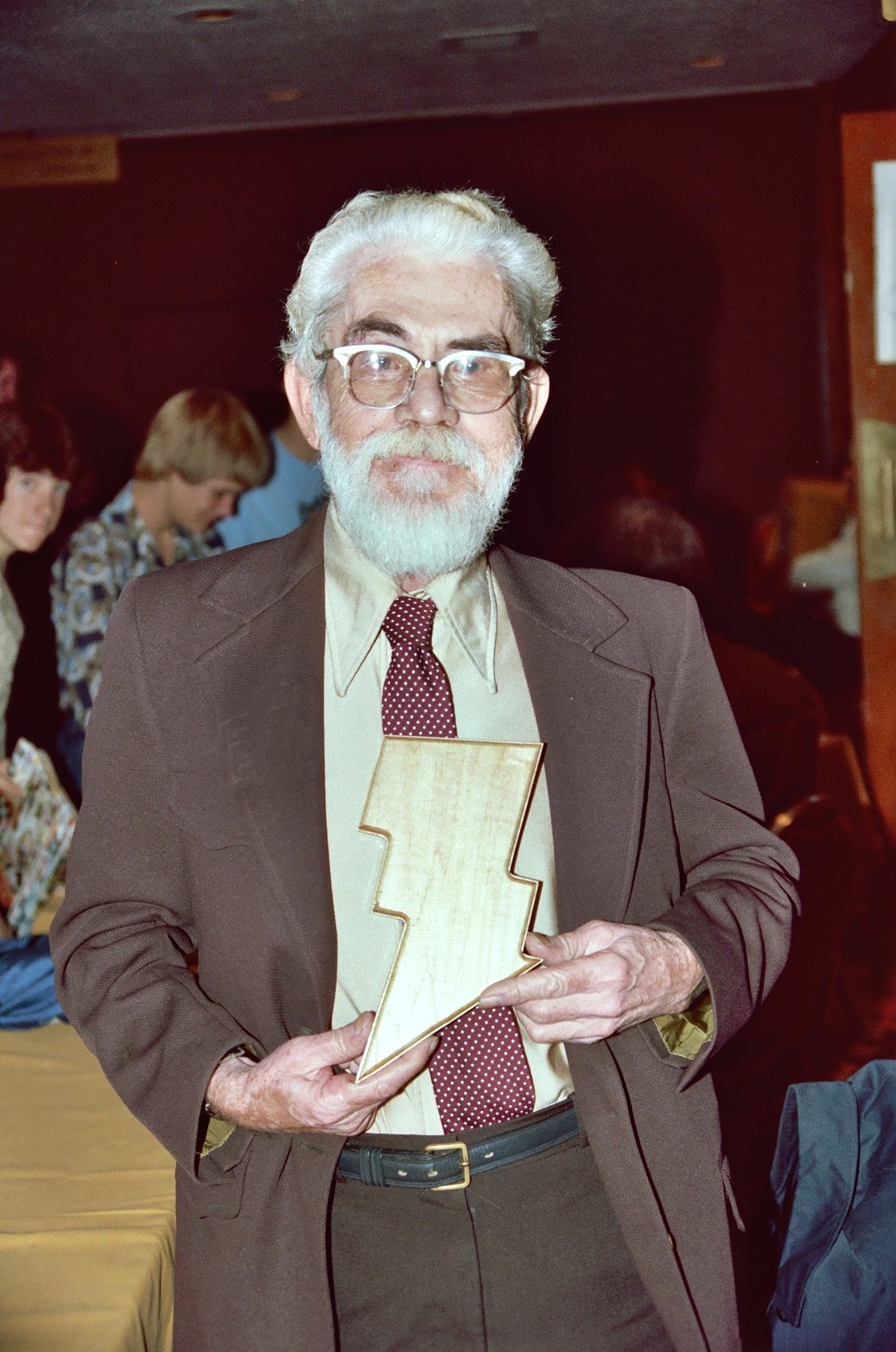 Captain Marvel creator C. C. Beck (1910-1989) at the October, 1982 Minneapolis Comic-Con. NOTE: Permission granted to copy, publish, broadcast or post any of my photos, but please credit "photo by Alan Light" if you can. Thanks.